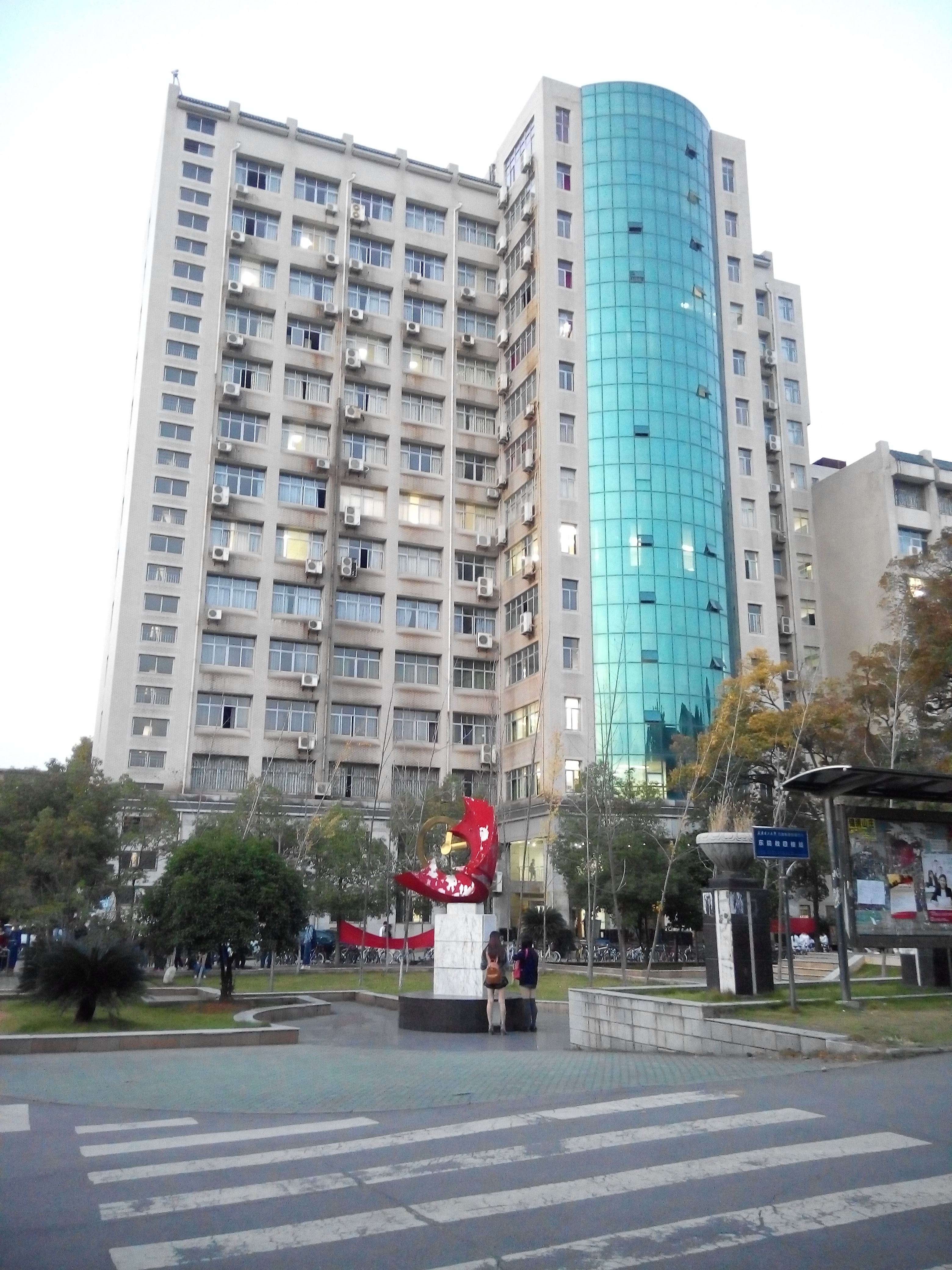 Wuhan University of Technology